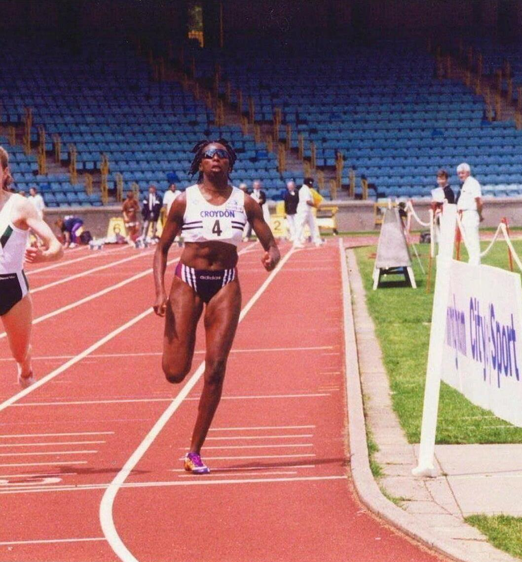 photograph of Donna Fraser (British 400m runner)